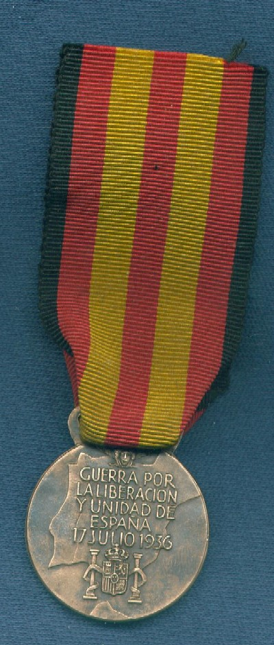 Italian Medal of the campaign of Spain (back)